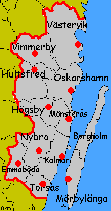 All municipalities (kommuner) of Kalmar Country (Kalmar län) in Sweden Created by me